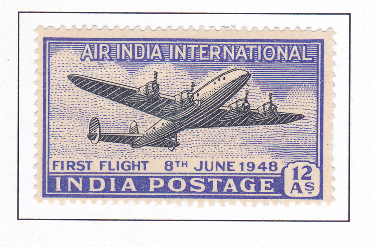 A commemorative postage stamp on AIR INDIA INTERNATIONAL FIRST FLIGHT issued by India Post. Date of Issue: 29th May 1948 Denomination: 12 anna Category: Institution